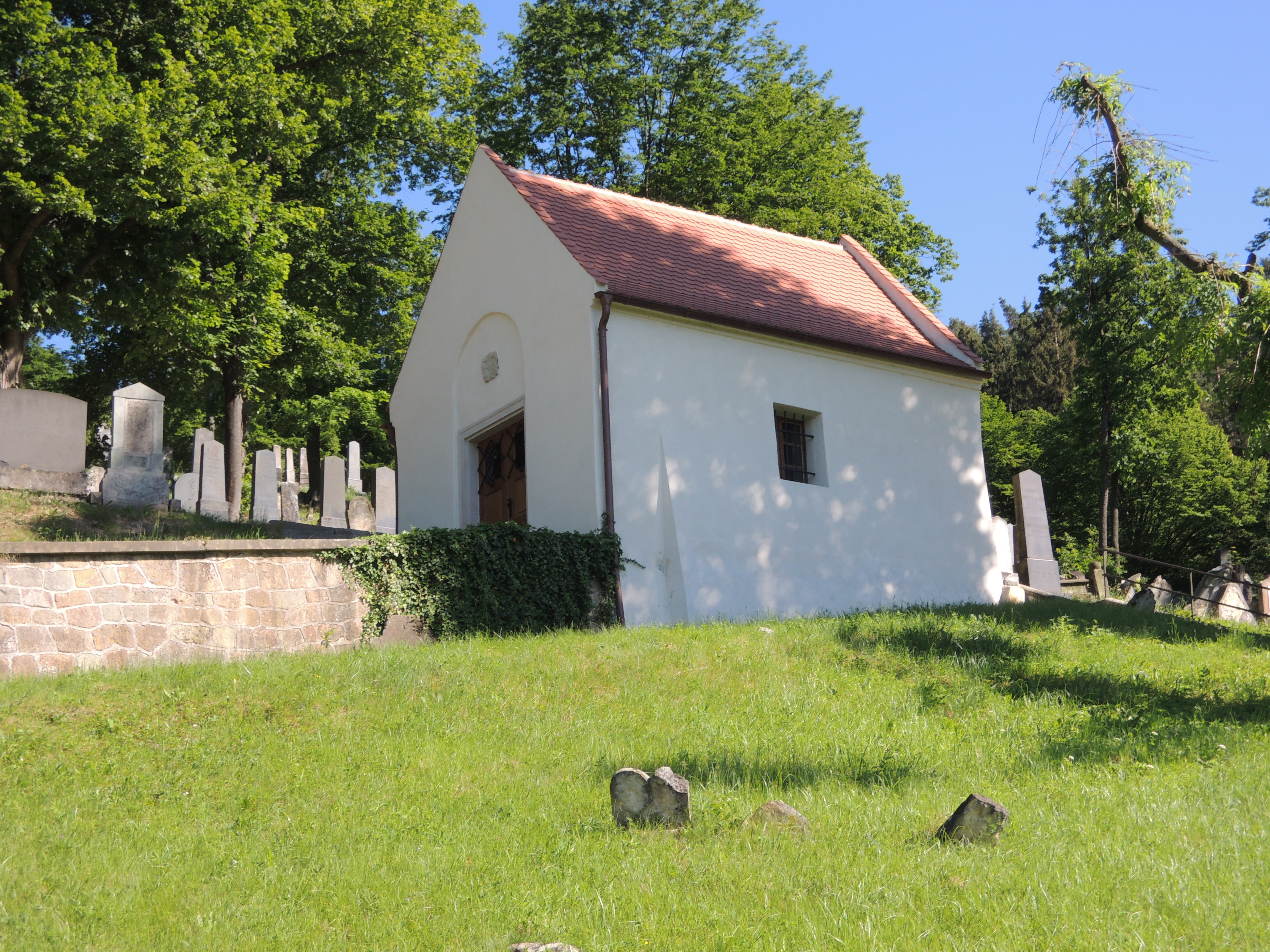 Ceremonial hall in the Boskovice Jewish cemetery, Blansko region, southern Moravia, Czech Republic